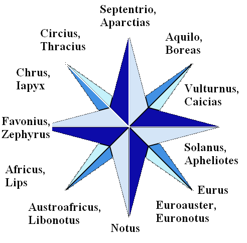 winds according to Museum Pio-Clementinum